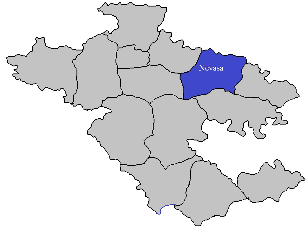 Nevasa